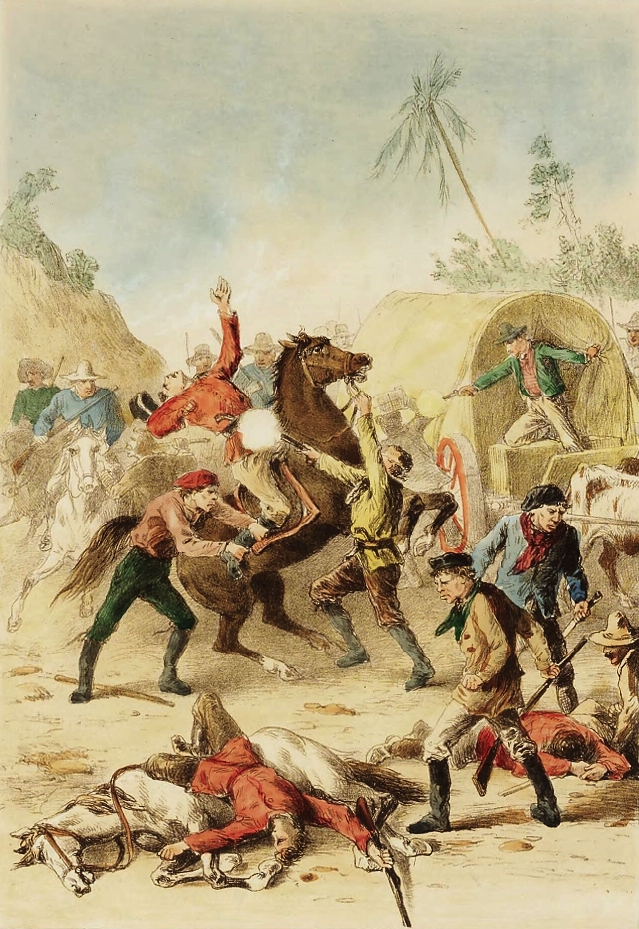 Bushrangers attack a gold escort, lithograph, col.; sheet 25 x 16.3 cm.